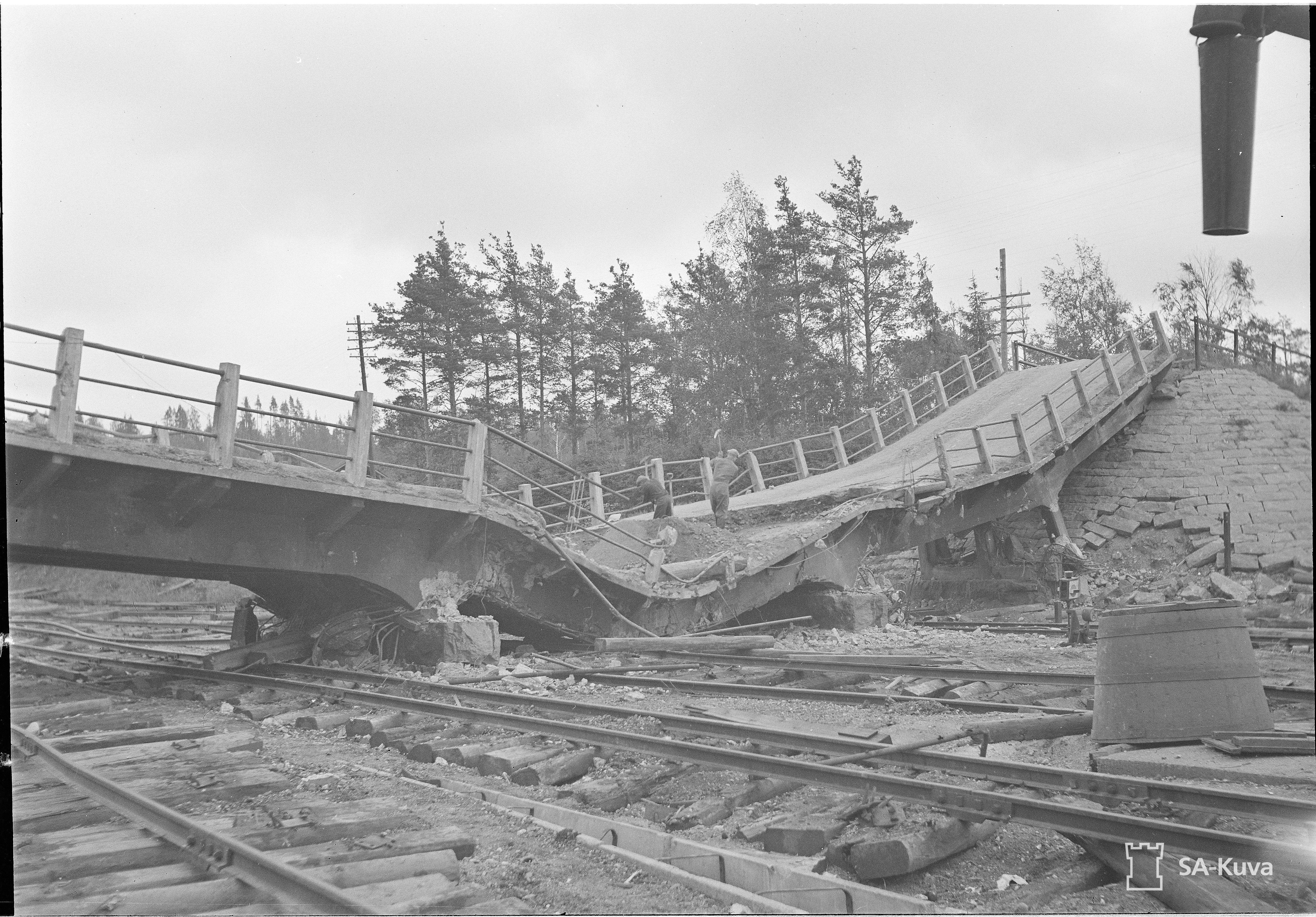 Hiitolan asemakyln ratapihaa ja siltaa on ryhdytty heti valtauksen jlkeen korjaamaan.